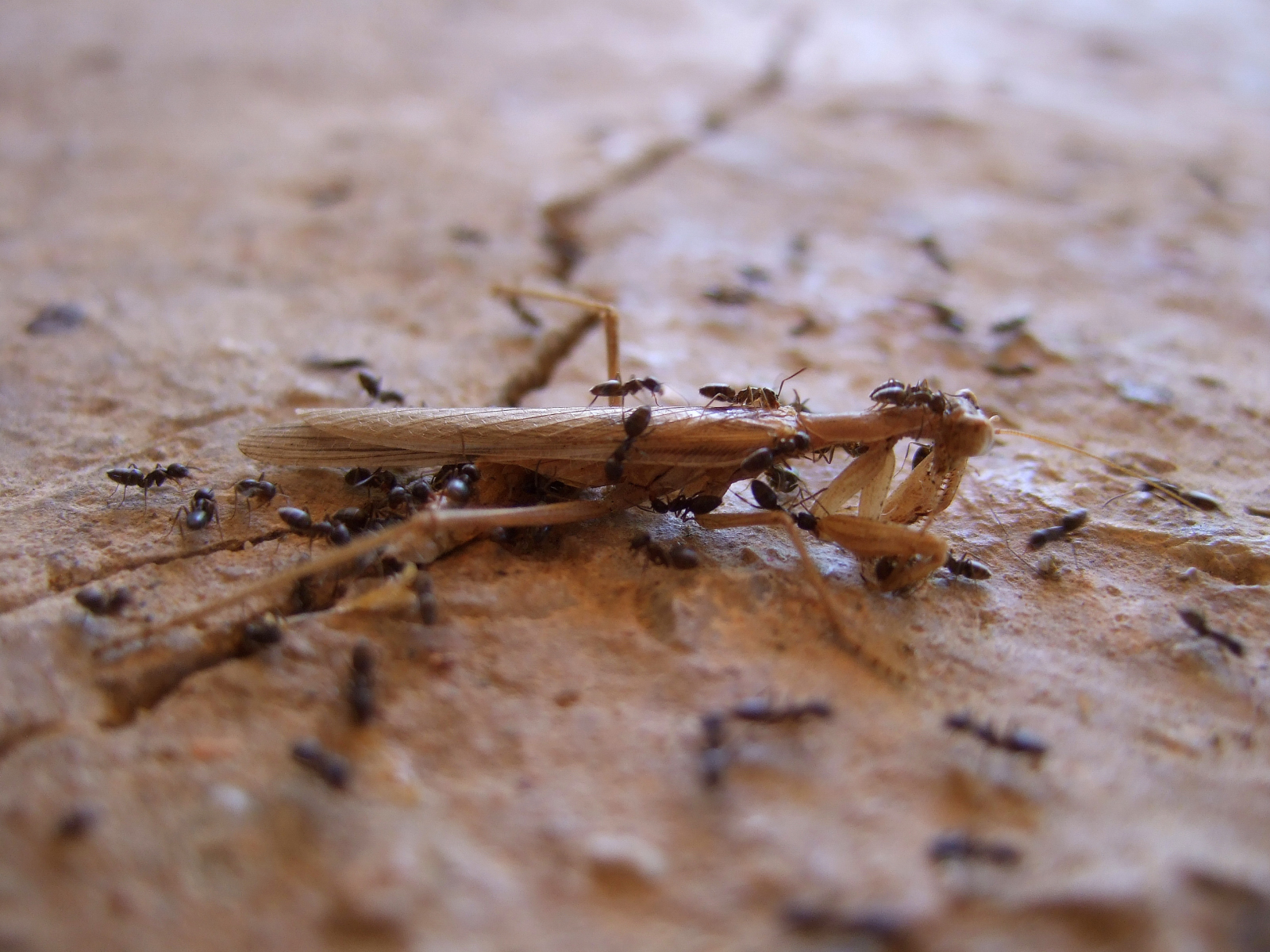 Ants' social ethology: ants hunting a bigger prey